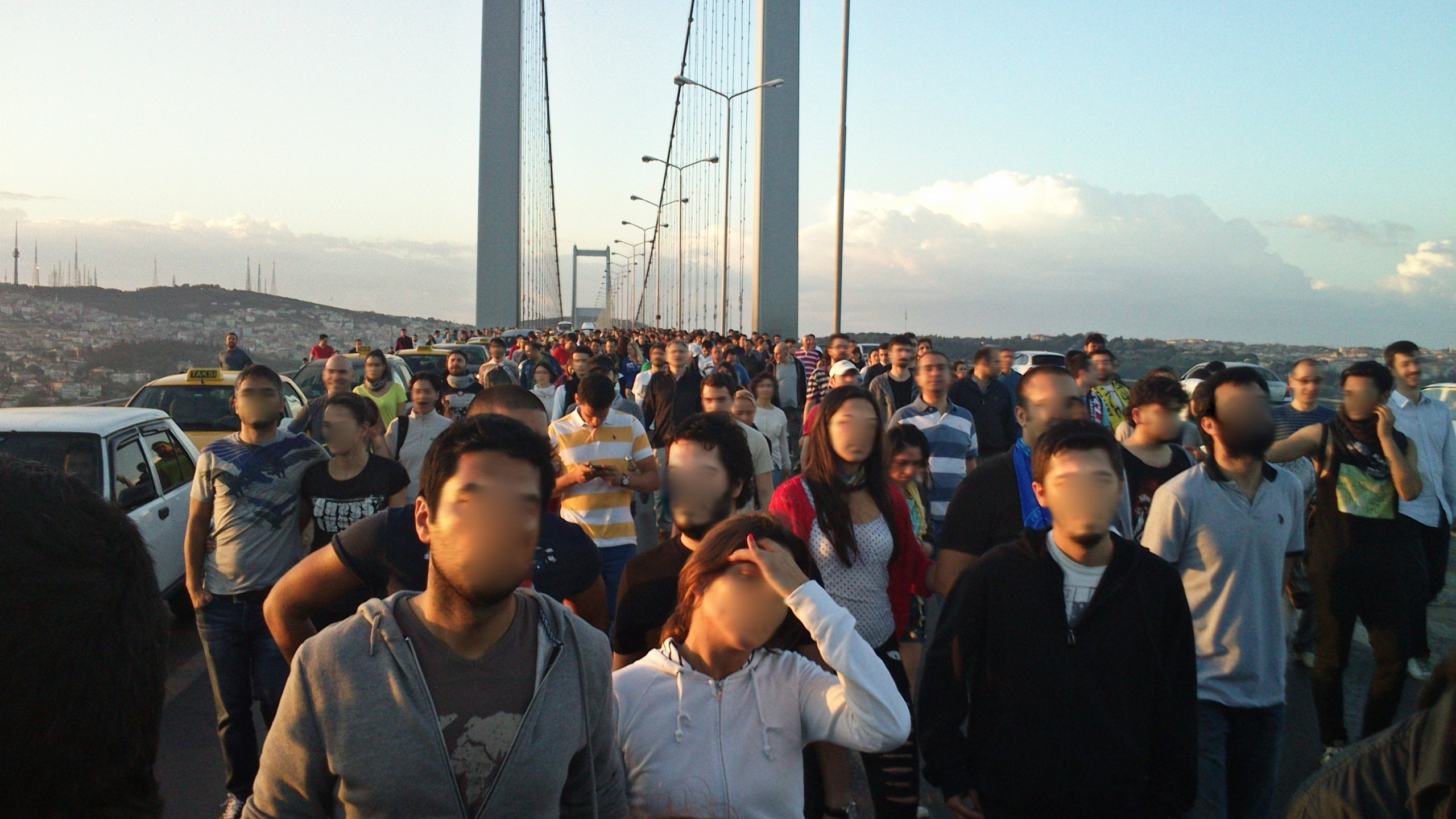 1 June; Bosphorus Bridge, people from Kadıköy were walking since 1am.